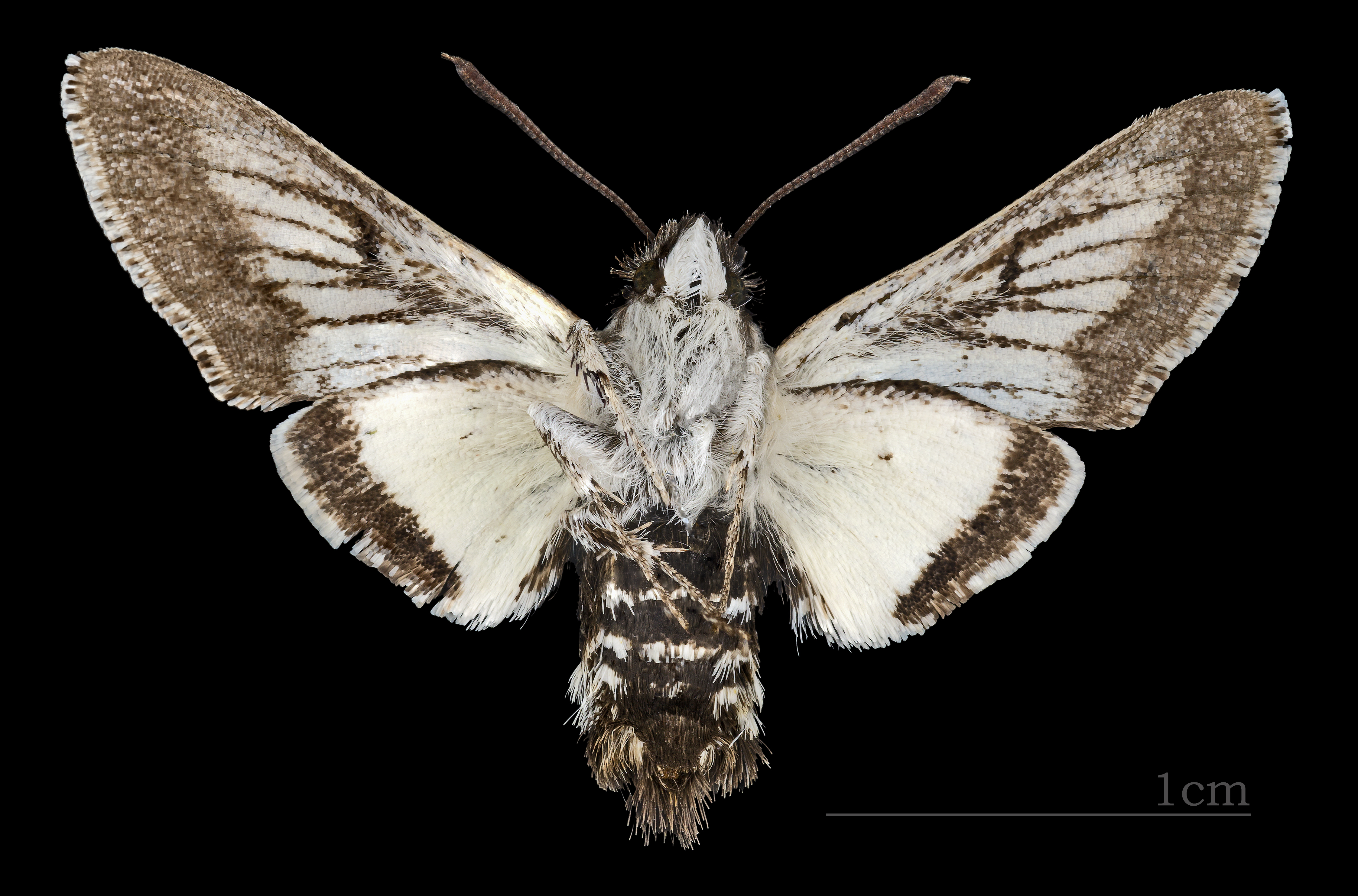 Phaeton Primrose Sphinx Moth - △ Ventral side △ Collection of the Mathematician Laurent Schwartz